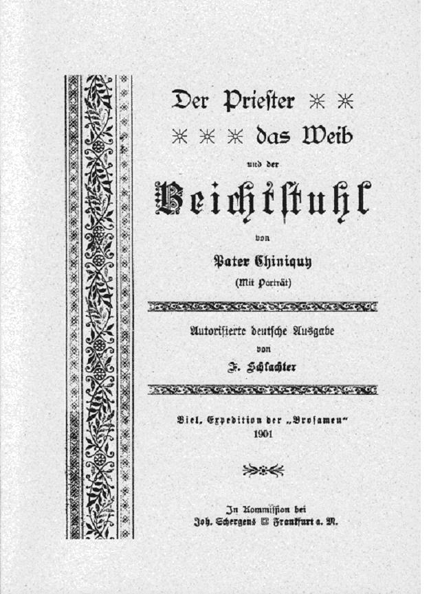 Title page of the German first edition of The Priest, the woman and the confessional